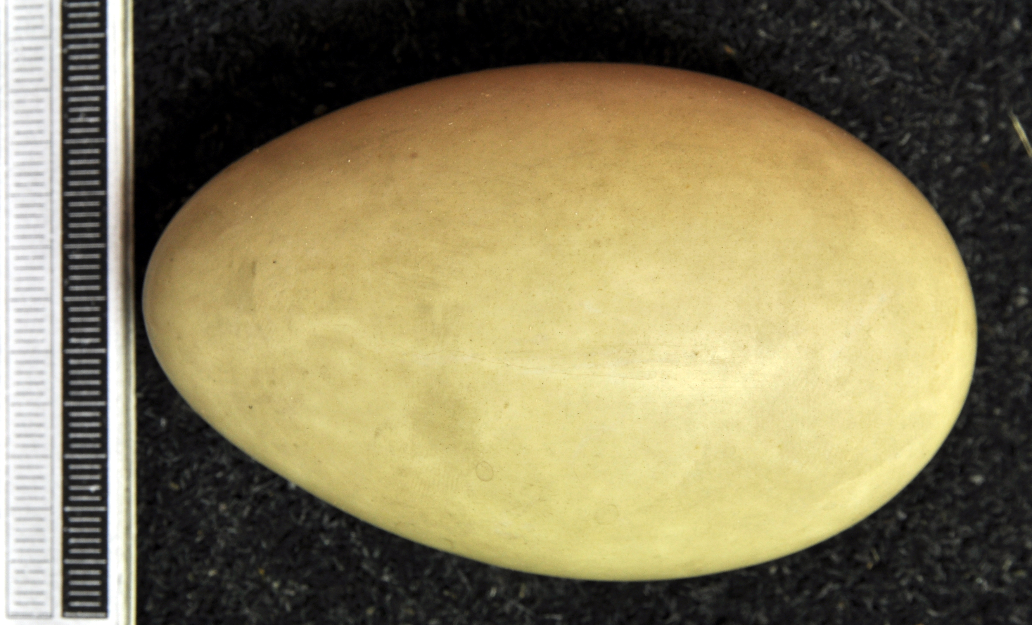 Common eider Somateria mollissima , egg, Coll. Museum Wiesbaden